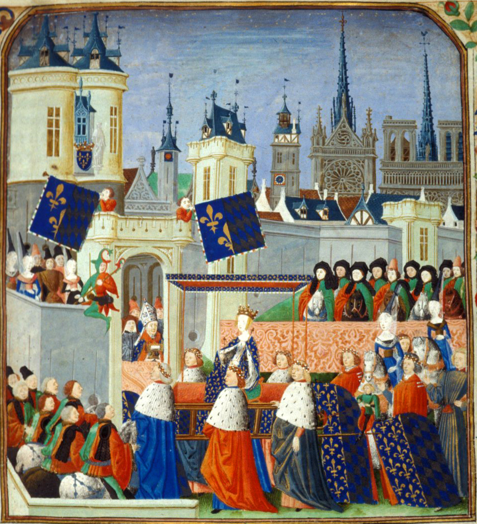 Queen Isabella in procession. Illuminated miniature from Jean Froissart's Chroniques, BL Harley 4379.